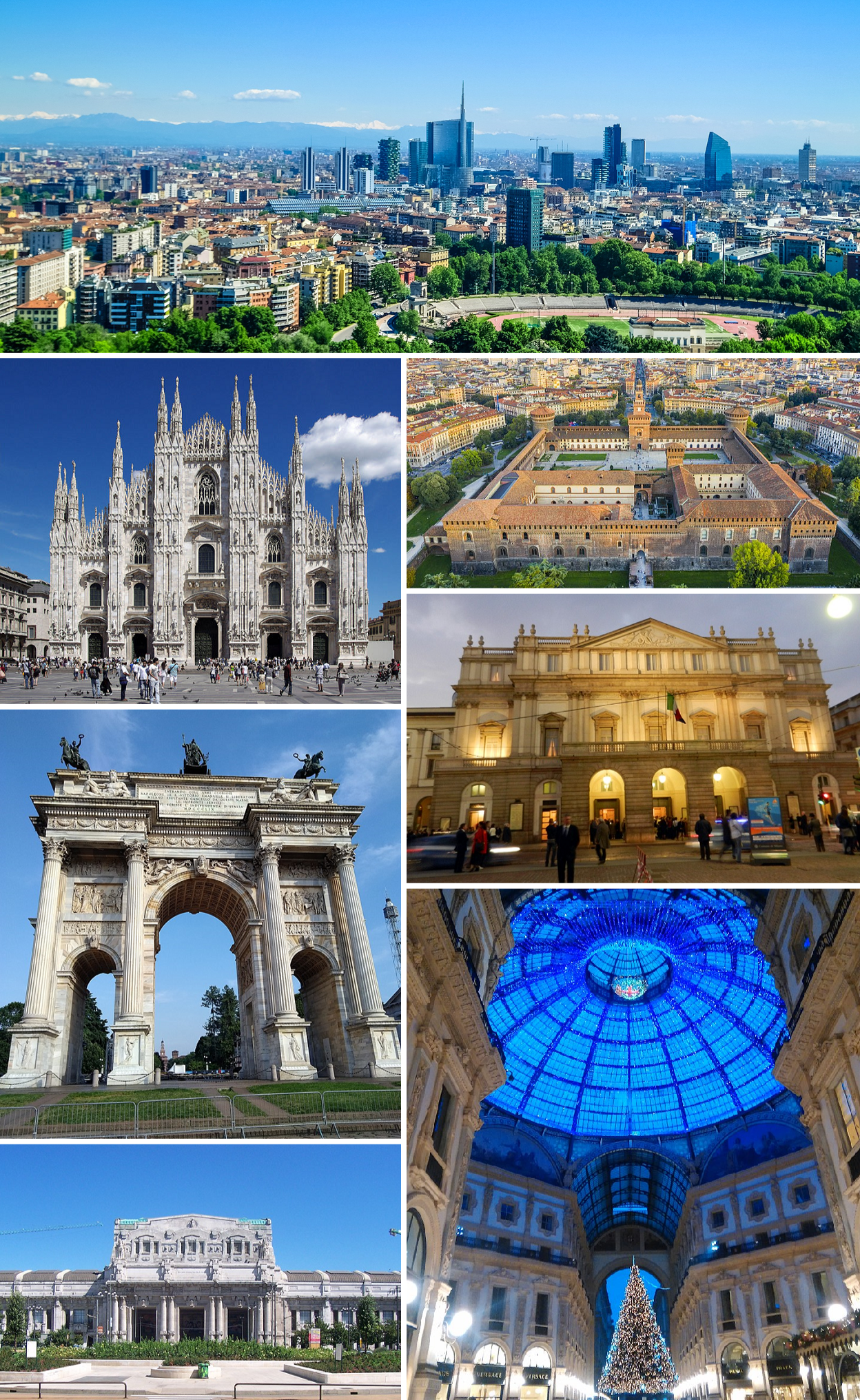 7 of The Most Iconic Landmarks and Places of Milan